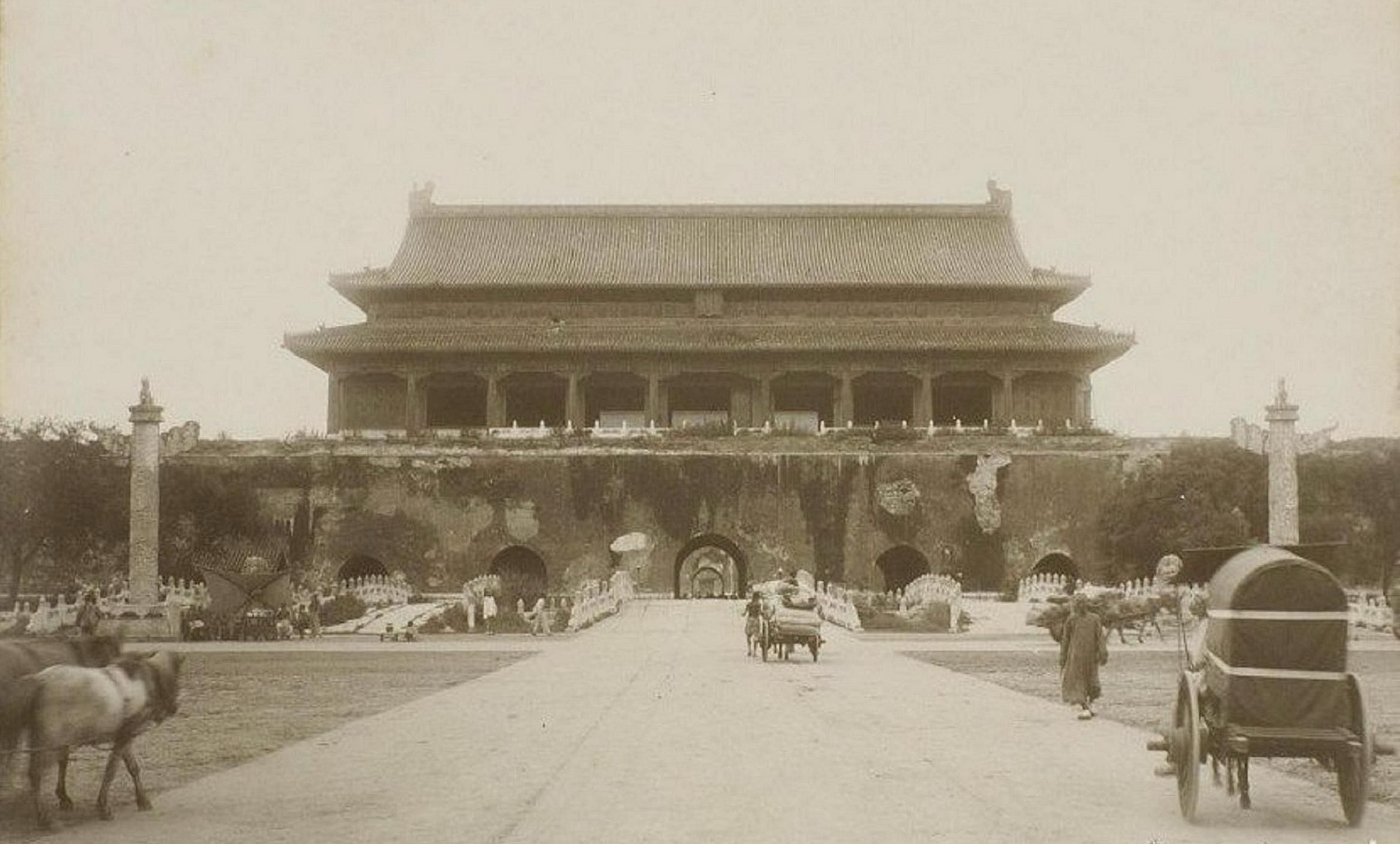 Tiananmen (front) 1901